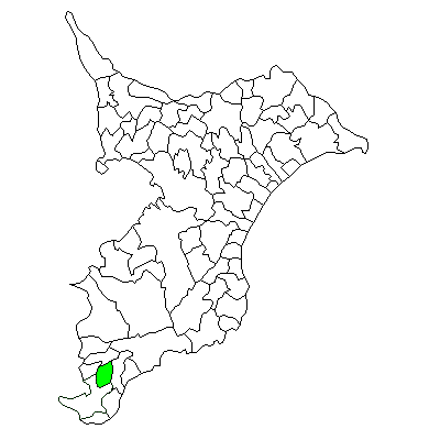 Location Map of former Miyoshi Village, Chiba Prefecture, Japan, now part of Minamiboso City.